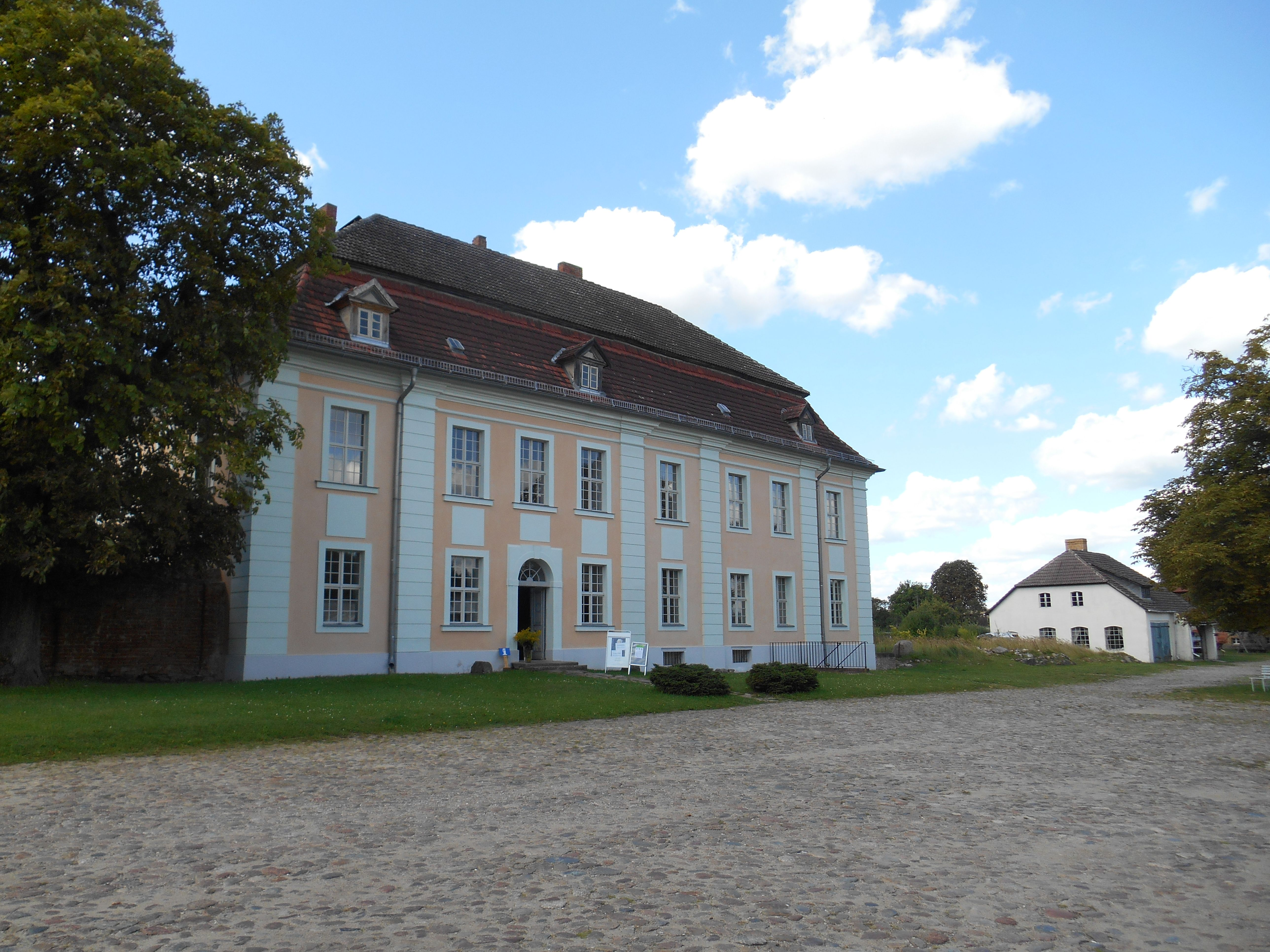 Manor house in Großwoltersdorf-Zernikow/Brandenburg (Germany)